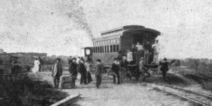 A group of passengers on the last wagon of a Ferrocarril Midland's passenger train. This is the Puente Alsina-Puente La Noria (today Ingeniero Budge) line.